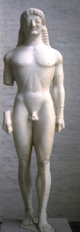 So called “Apollo (or Kouros) of Tenea”, corinthian kouros with the archaic smile, ca. 560–550 BC.